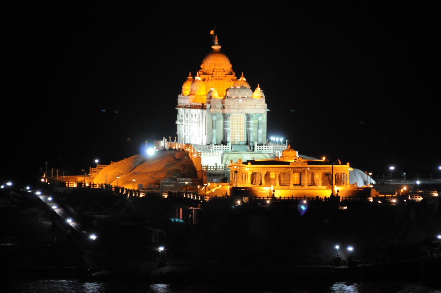 Vivekanand Memorial by the night, Kanyakumari, Tamil Nadu.